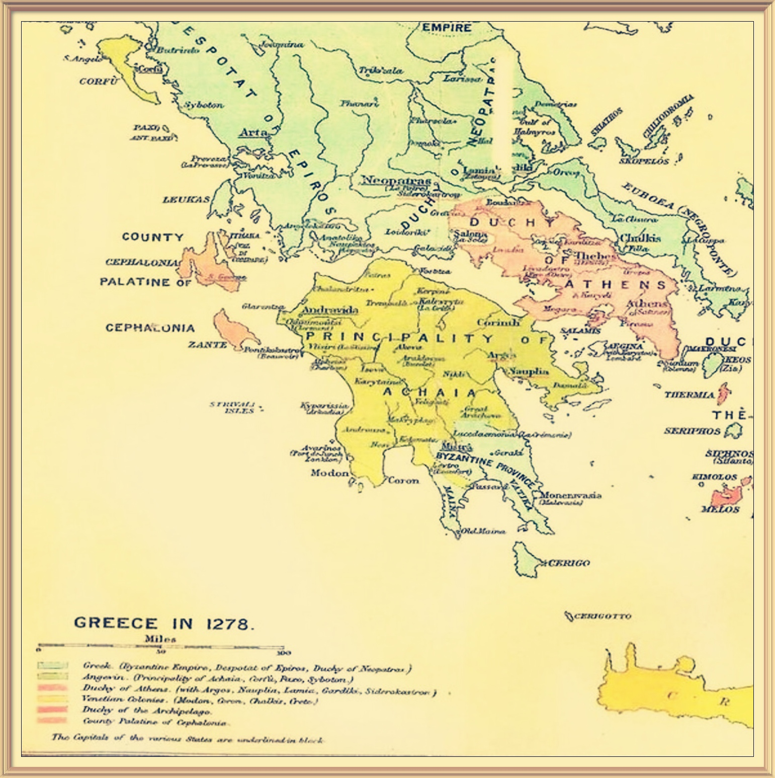 Map of the Greek and Latin states in southern Greece ca. 1278